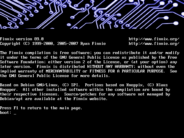 Finnix 89.0 "about" boot screen